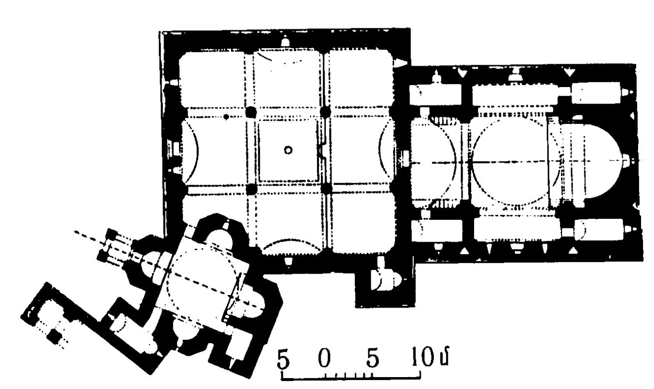 Plan of Haricavank